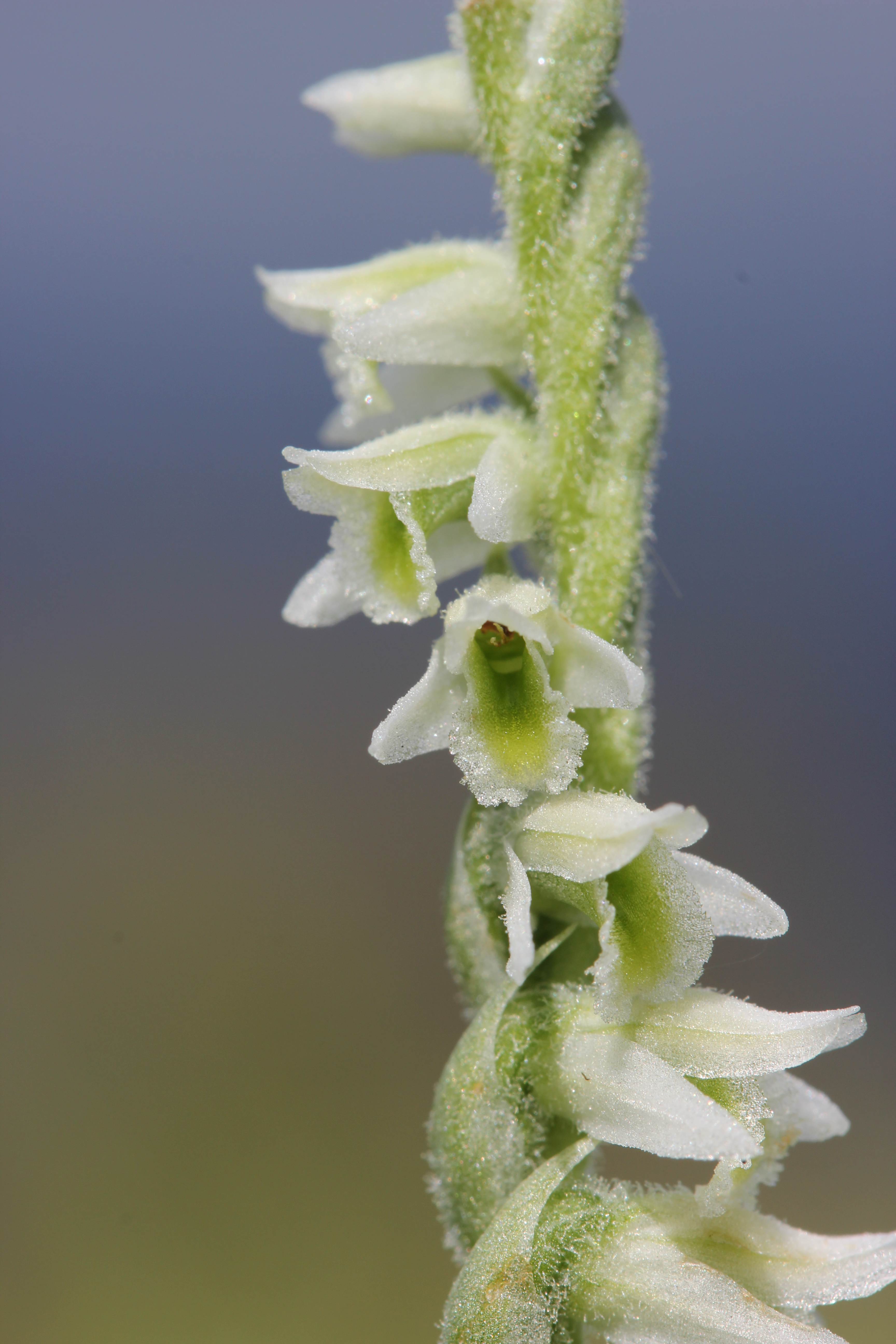 Spiranthes spiralis in Chancy, Geneva, Switzerland.